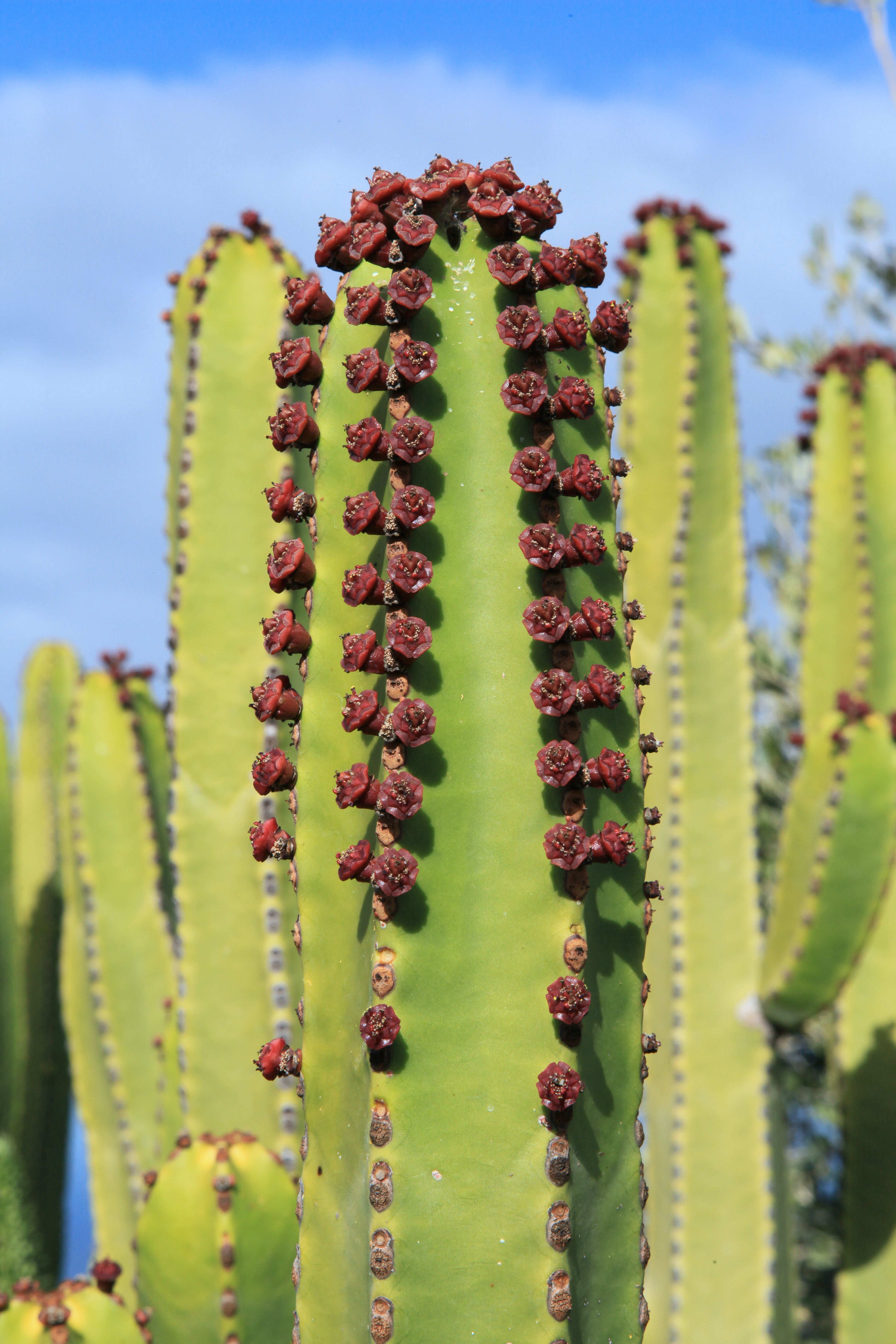 Euphorbia canariensis grown at Plaza de La Glorieta, Camino El Callejón de Las Manchas / Camino Manchas de Abajo in Las Manchas, Los Llanos de Aridane, La Palma, Canary Island, Spain